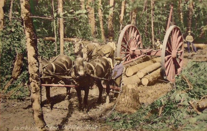 Lumbering scene of Cadillac, Michigan, in 1911